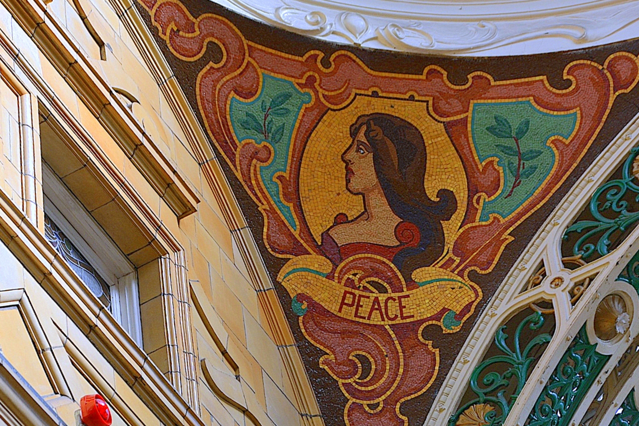 Burmantofts Vitreous Mosaic in County Arcade, Victoria Quarter, Leeds